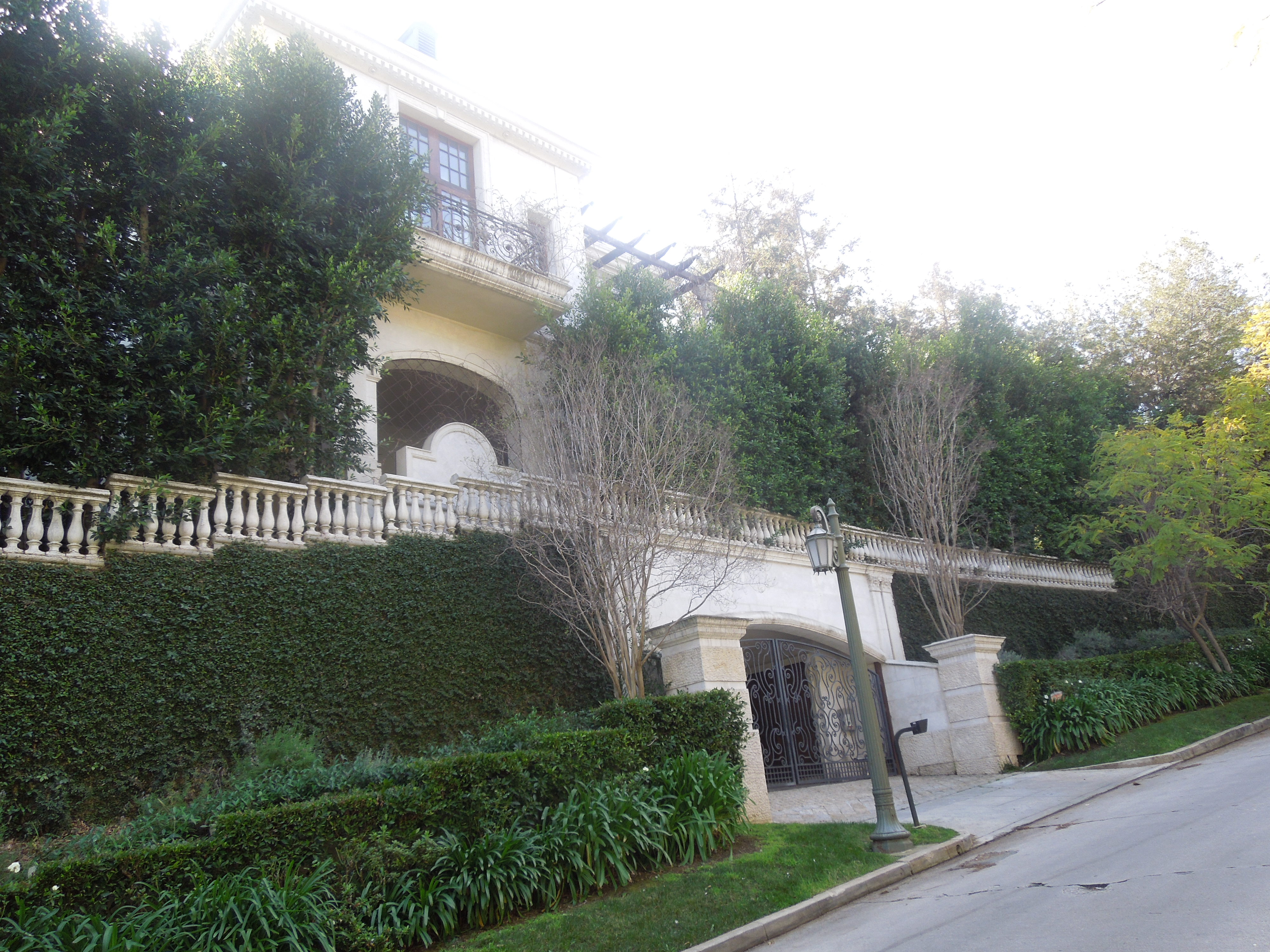 Michael Jackson's home in Los Angeles.